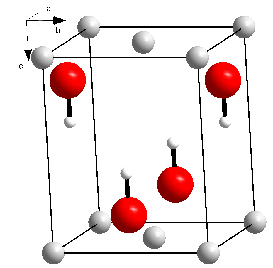 Crystal structure of Lithium hydroxide